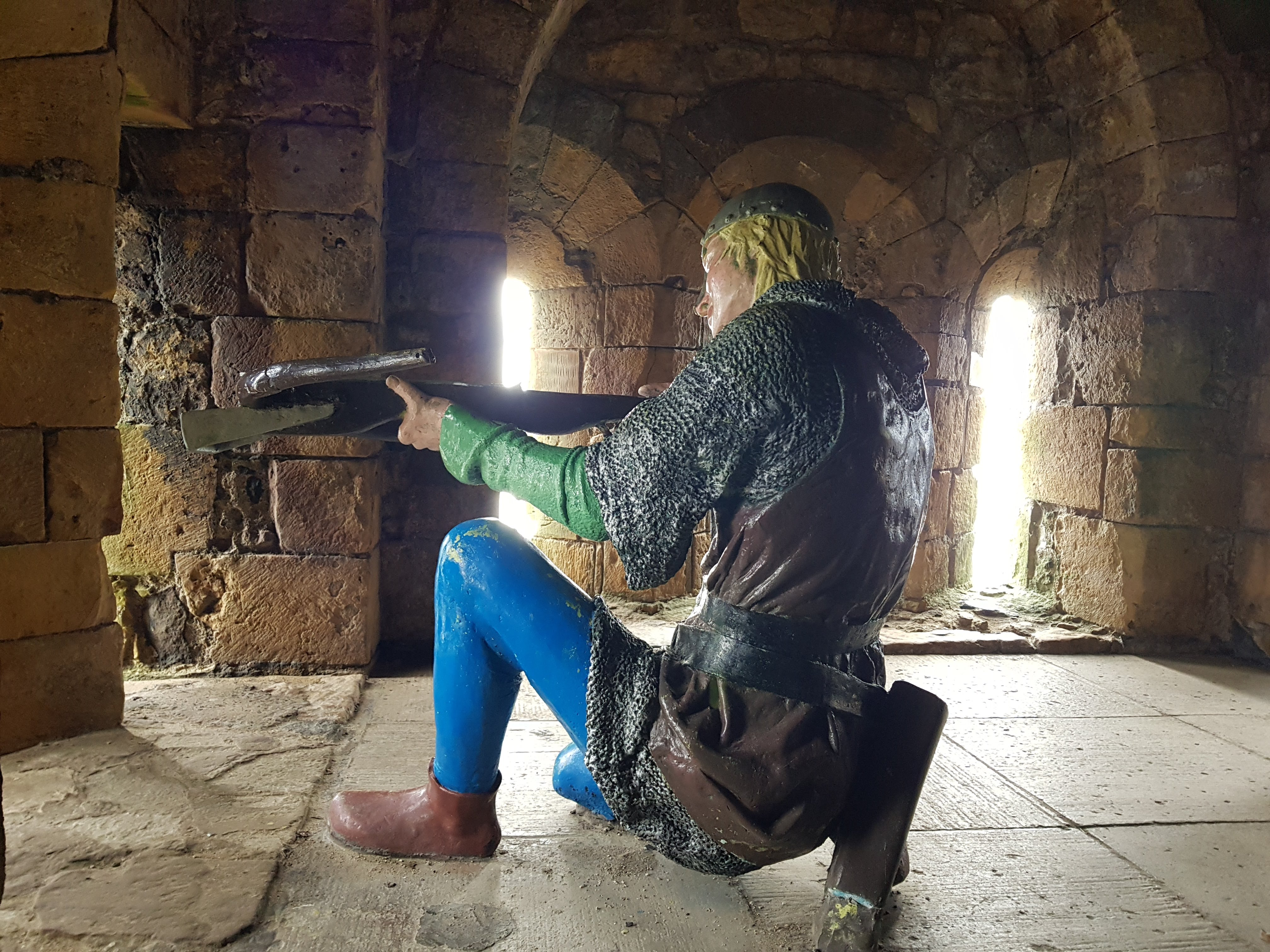 Carrickfergus Castle, Carrickfergus, Northern Ireland